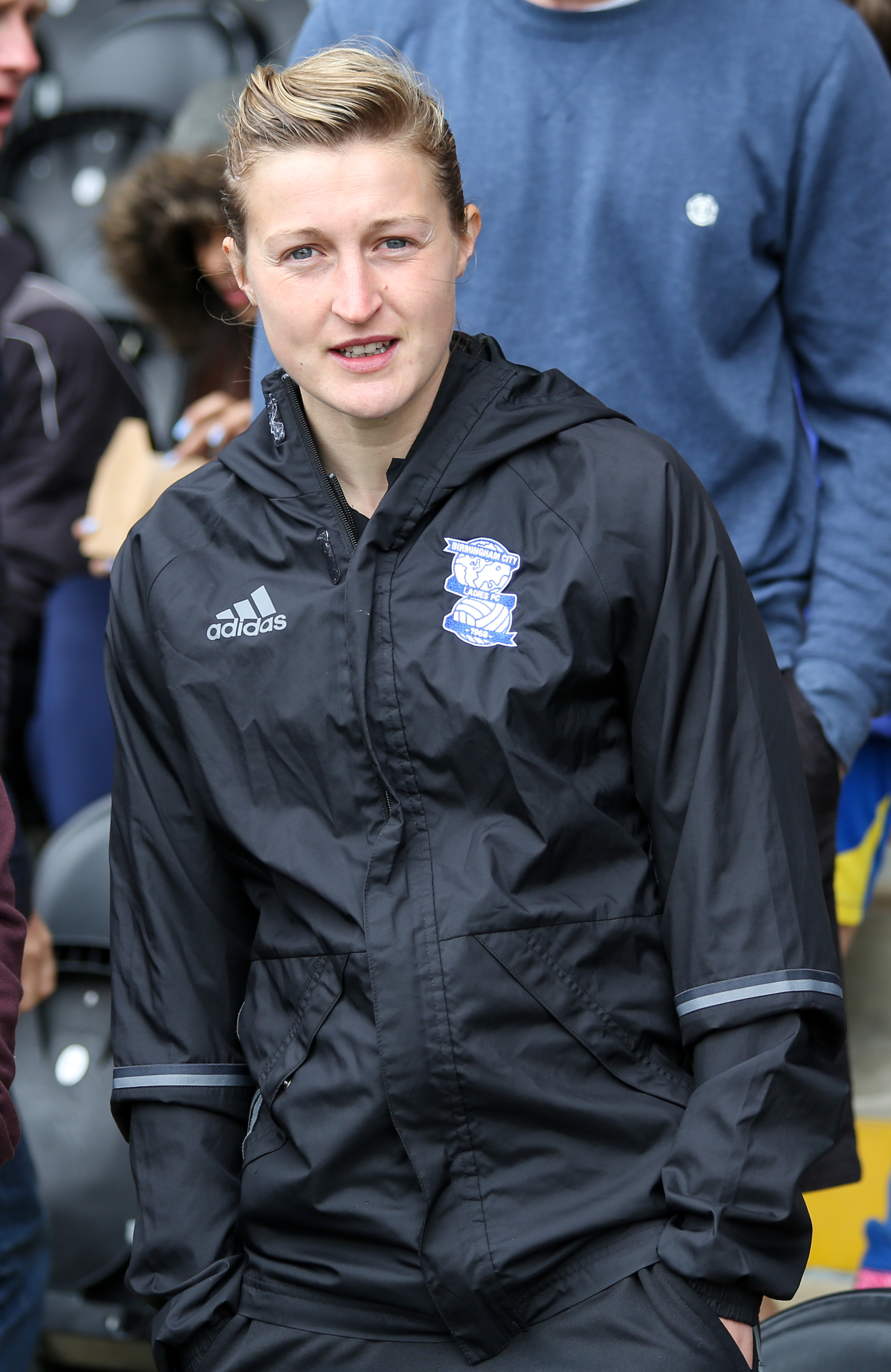 Arsenal LFC v Birmingham City LFC, 20 May 2017 – Ellen White